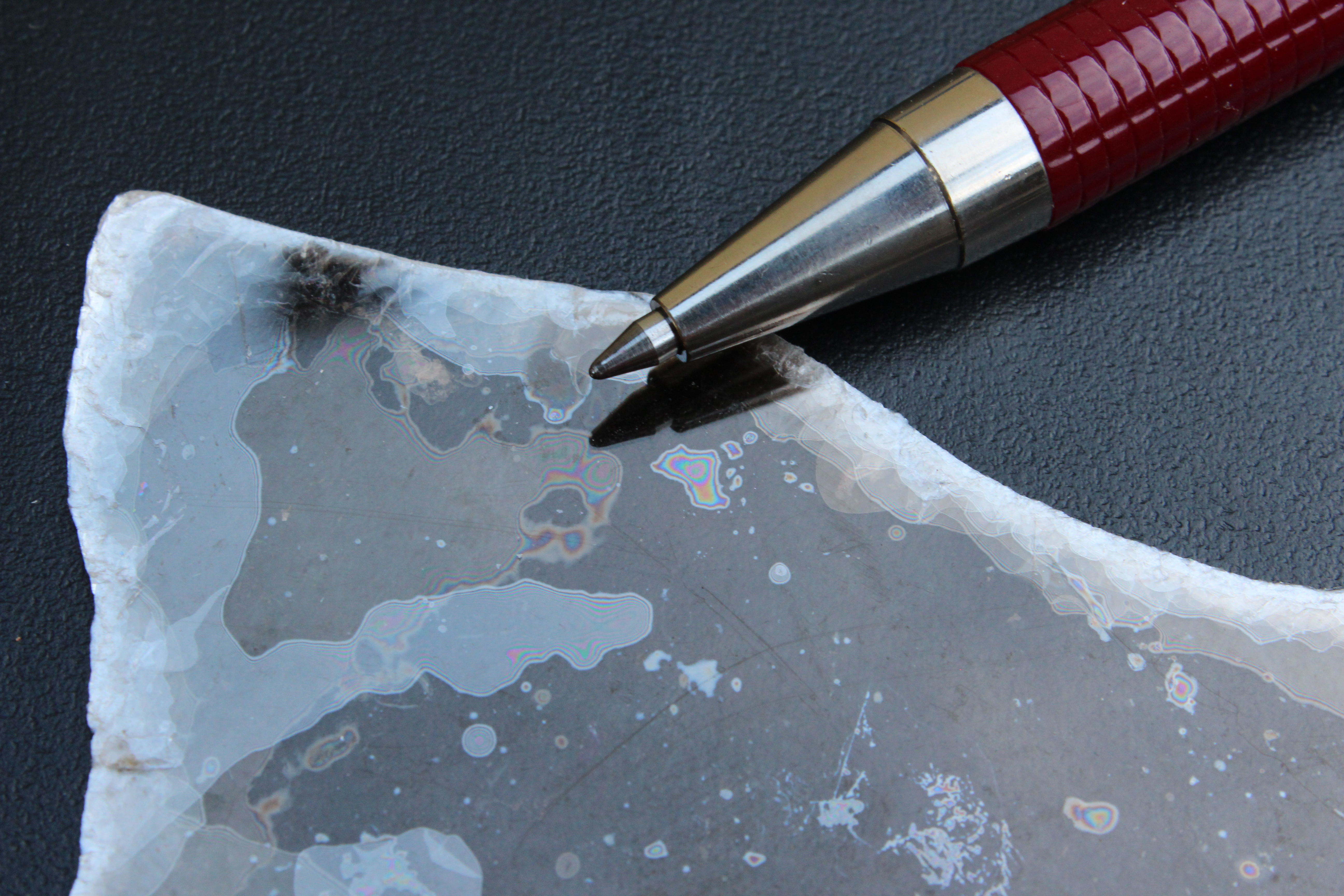 Mica sheet (muscovite). In the layer of air, between layers of mica, can be seen Newton's rings.